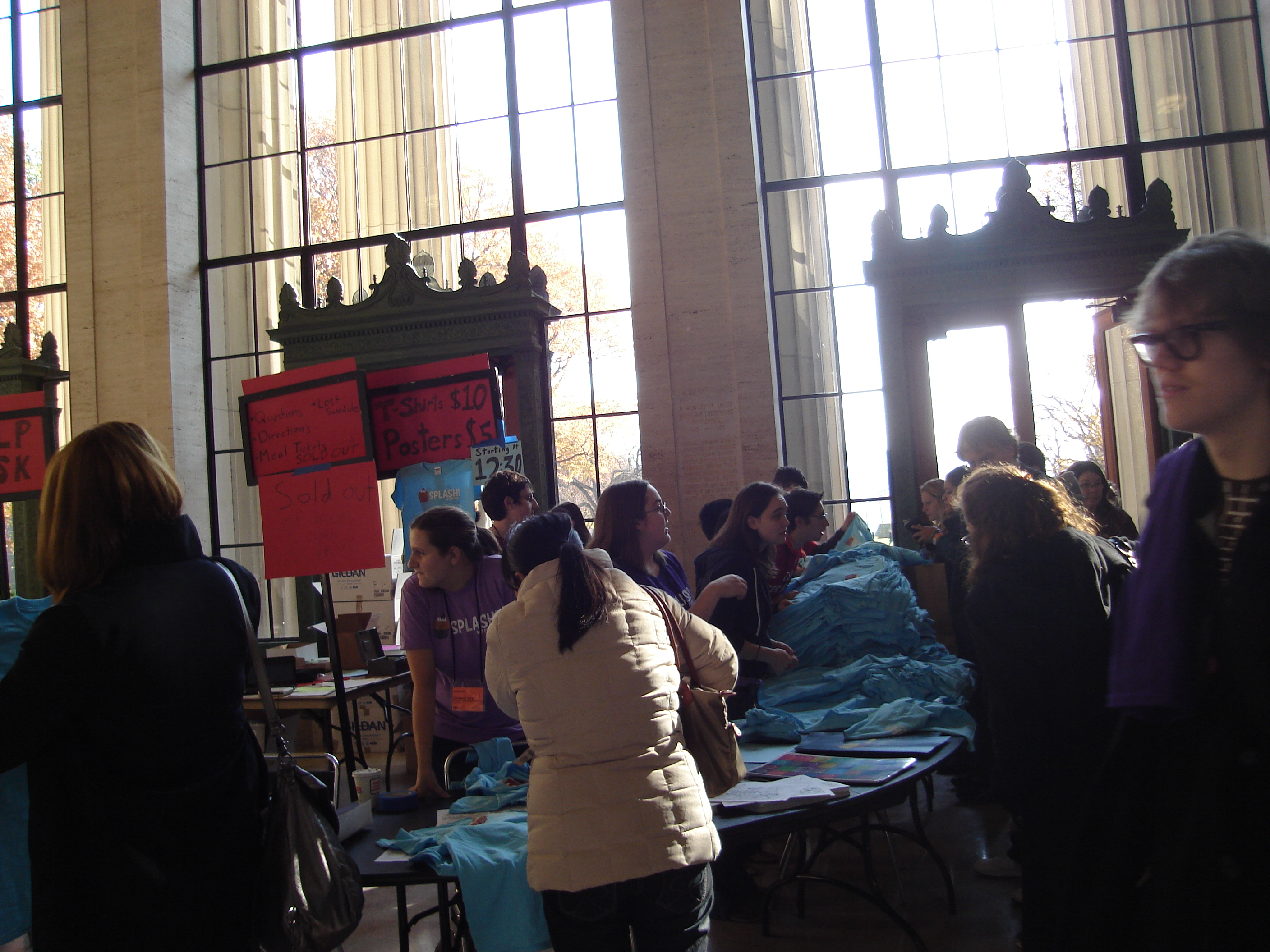 MIT SPLASH! Information Table - Fall 2012 @25th Annual MIT SPLASH!